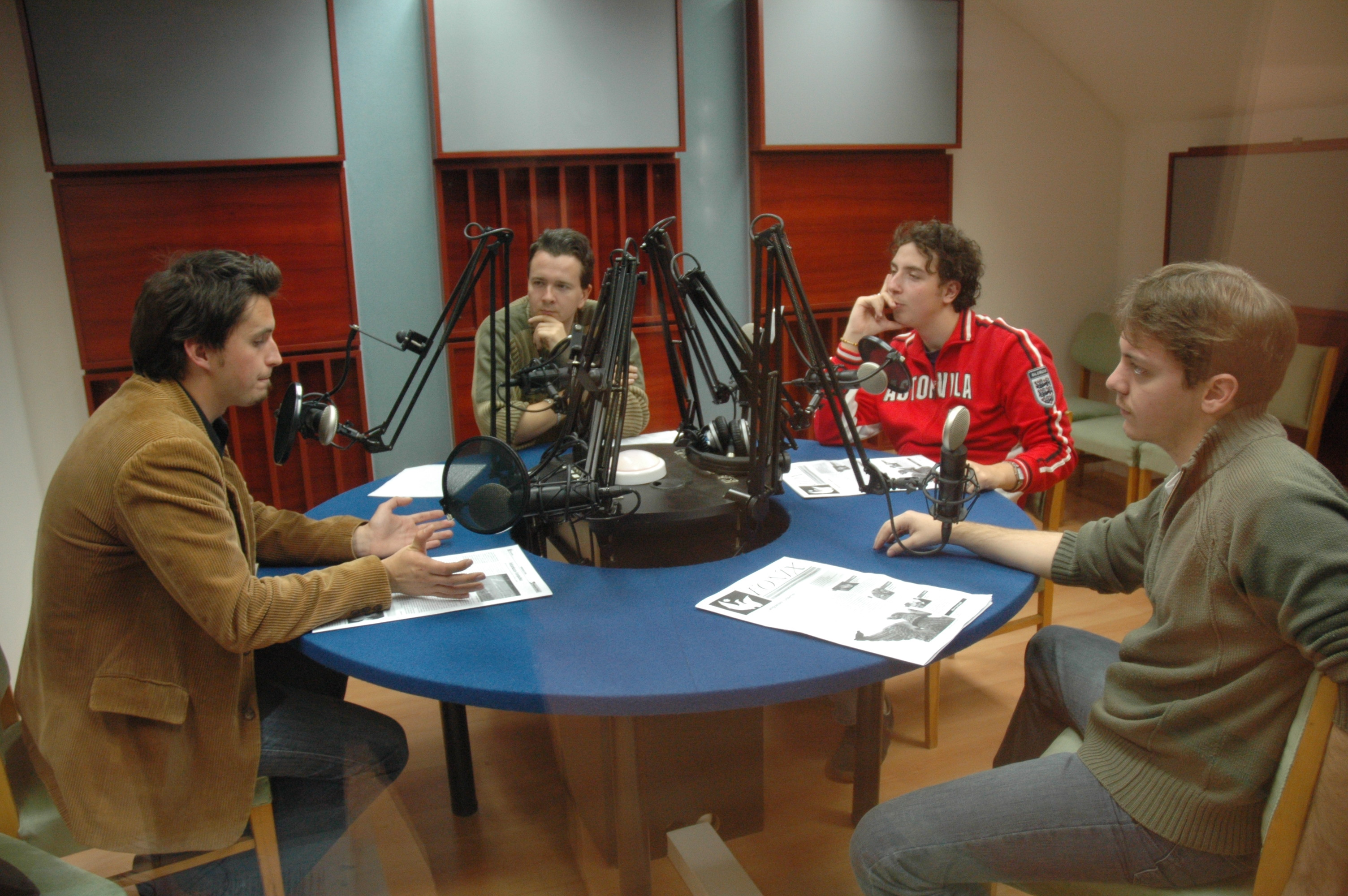 Méliusz Radio owned by Ferenc Kölcsey Teacher Training College of the Reformed Church